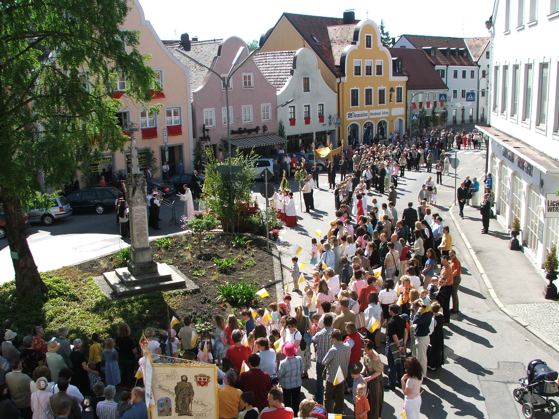 Corpus Christi Day (Fronleichnam) procession in Moosburg, Germany (2005).